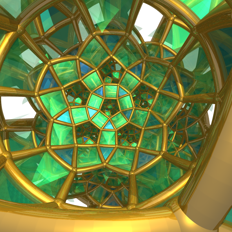 Central part of Schlegel diagram of cantellated 120-cell